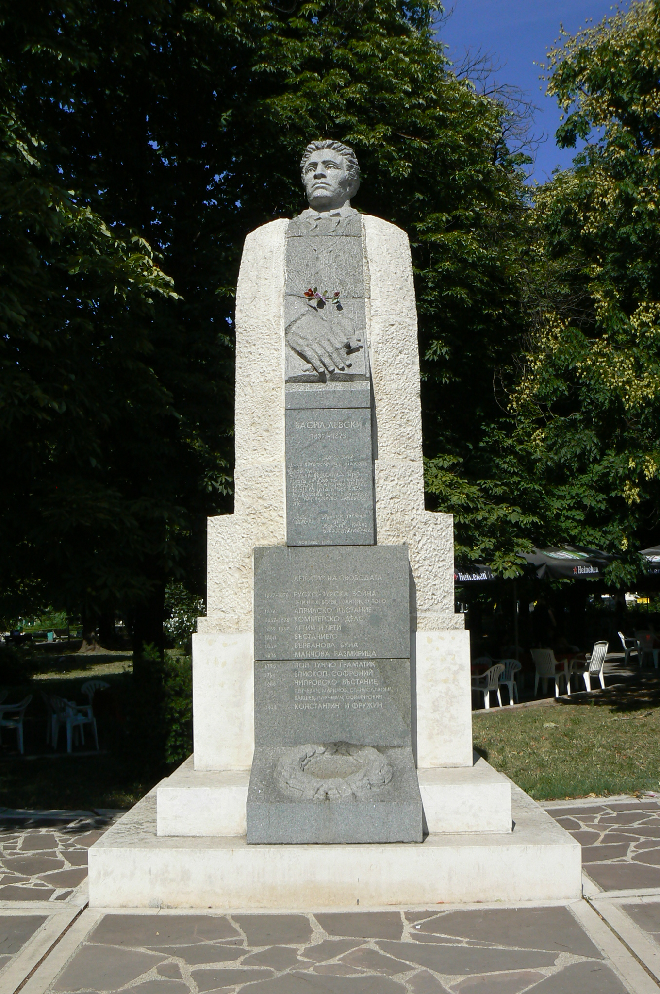 Monument of Vasil Levski in Montana, Bulgaria